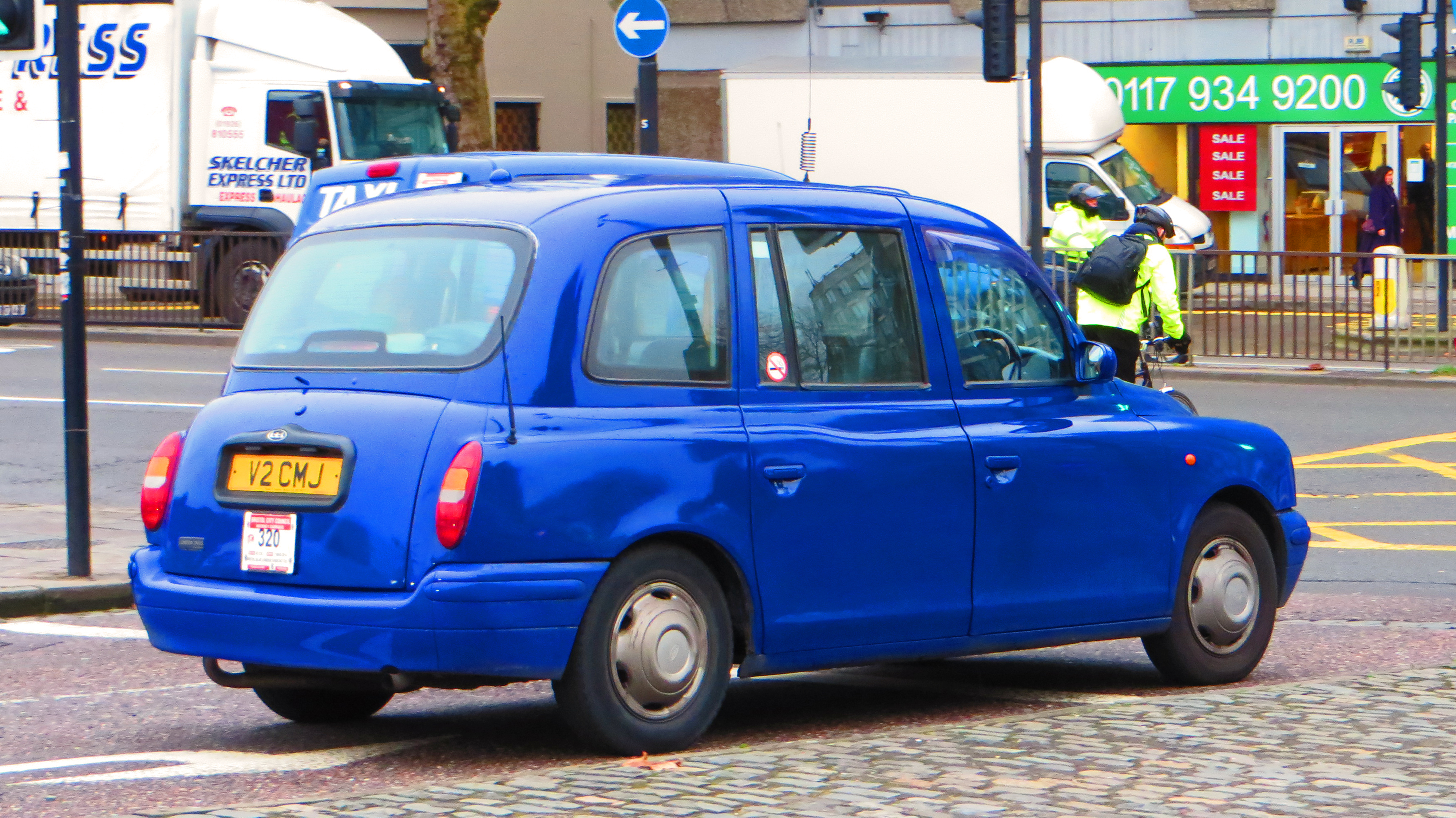 1999 LTI TX1 at Bristol Temple Meads railway station.